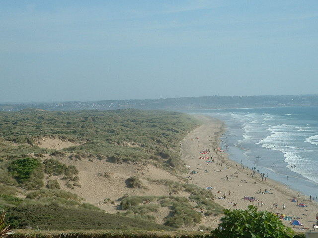 Saunton Sands, taken from Saunton Sands Hotel Taken on a sunny August day, a view of Saunton at its best. Taken looking south, you can just make out Appledore in the distance behind Braunton Burrows.